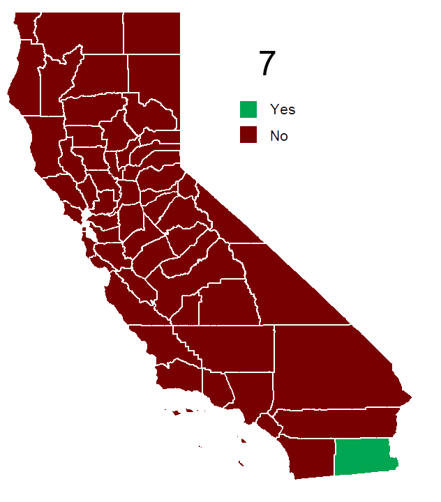 Electoral results by county.